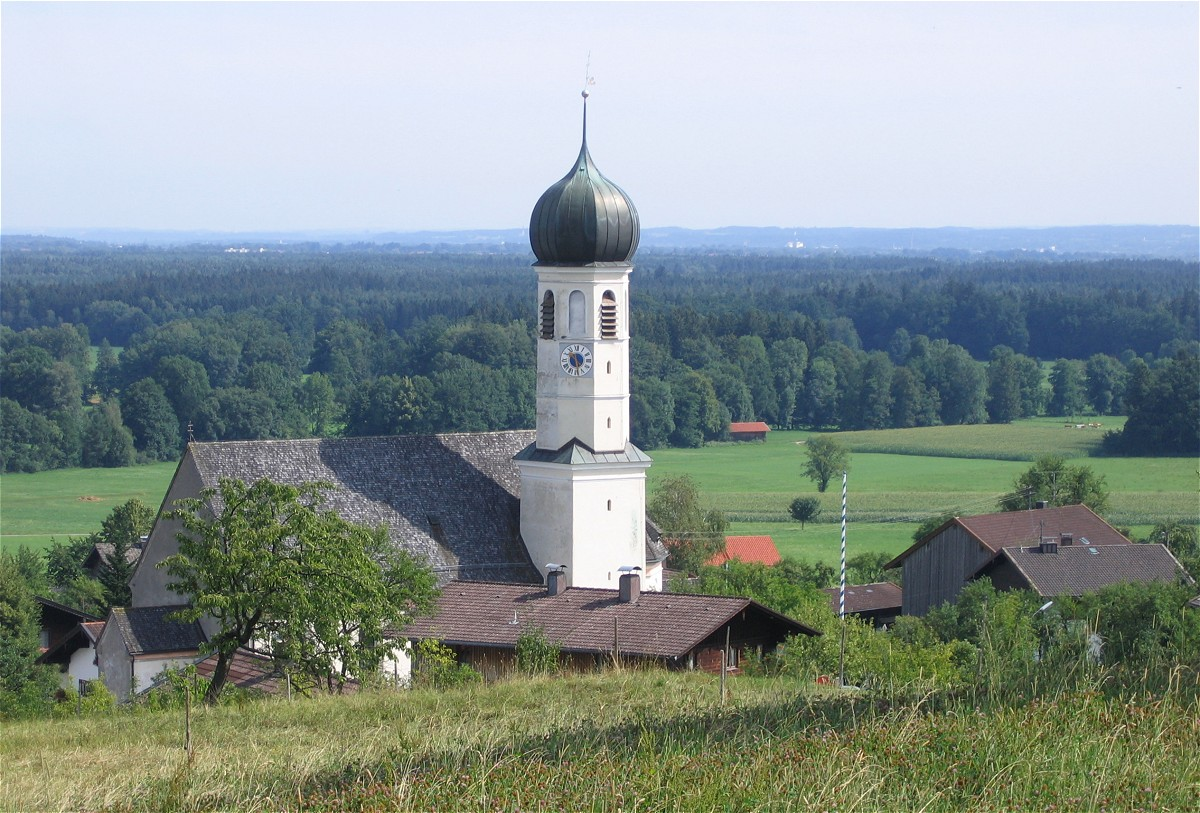 Litzldorf, view of St Michael's Parish Church from south-west.